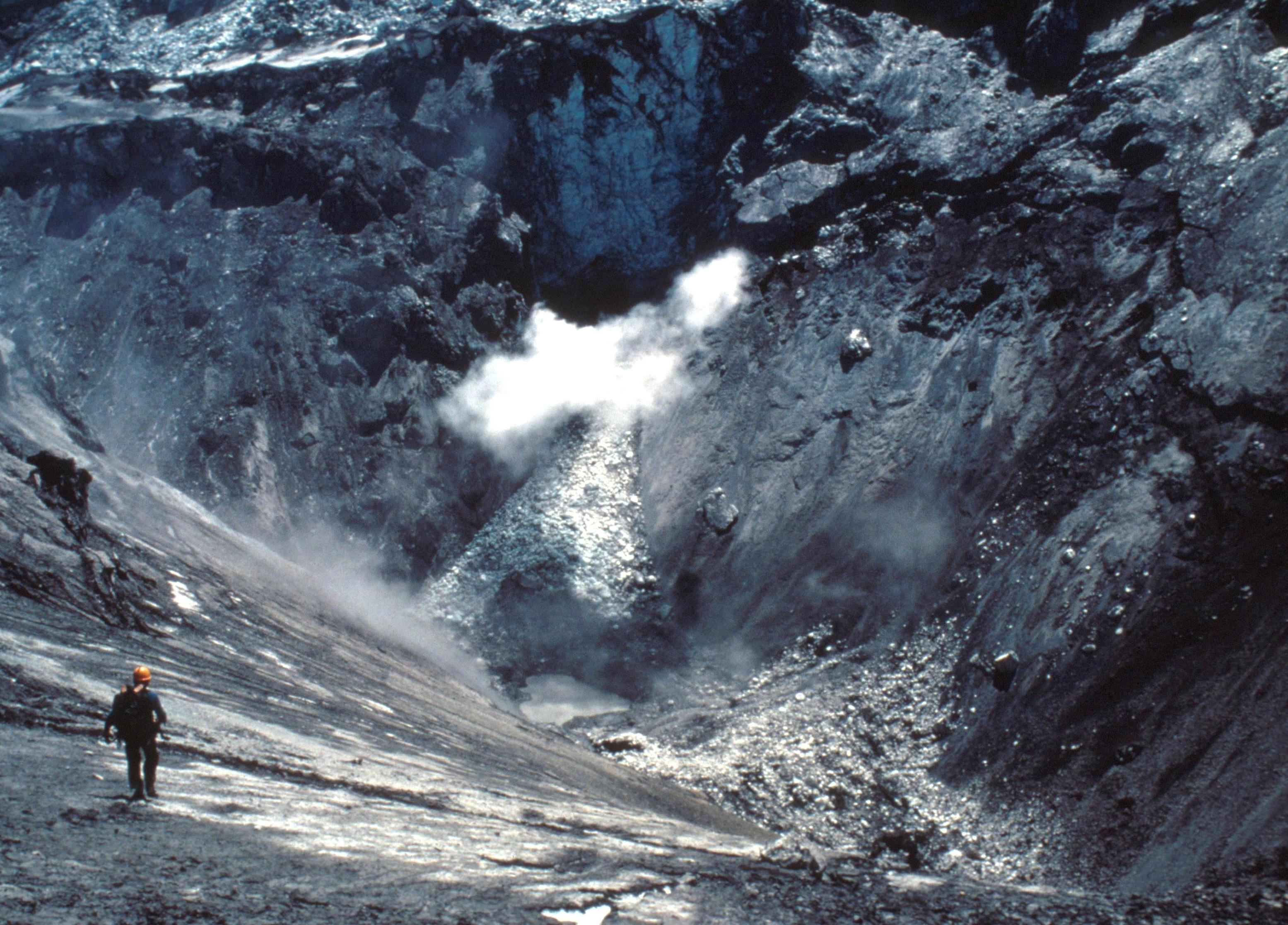 Dave Johnston going into Mount St. Helens crater to sample lake (from west). Crop of original photo by R.P. Hoblitt. Skamania County, Washington. April 30, 1980.